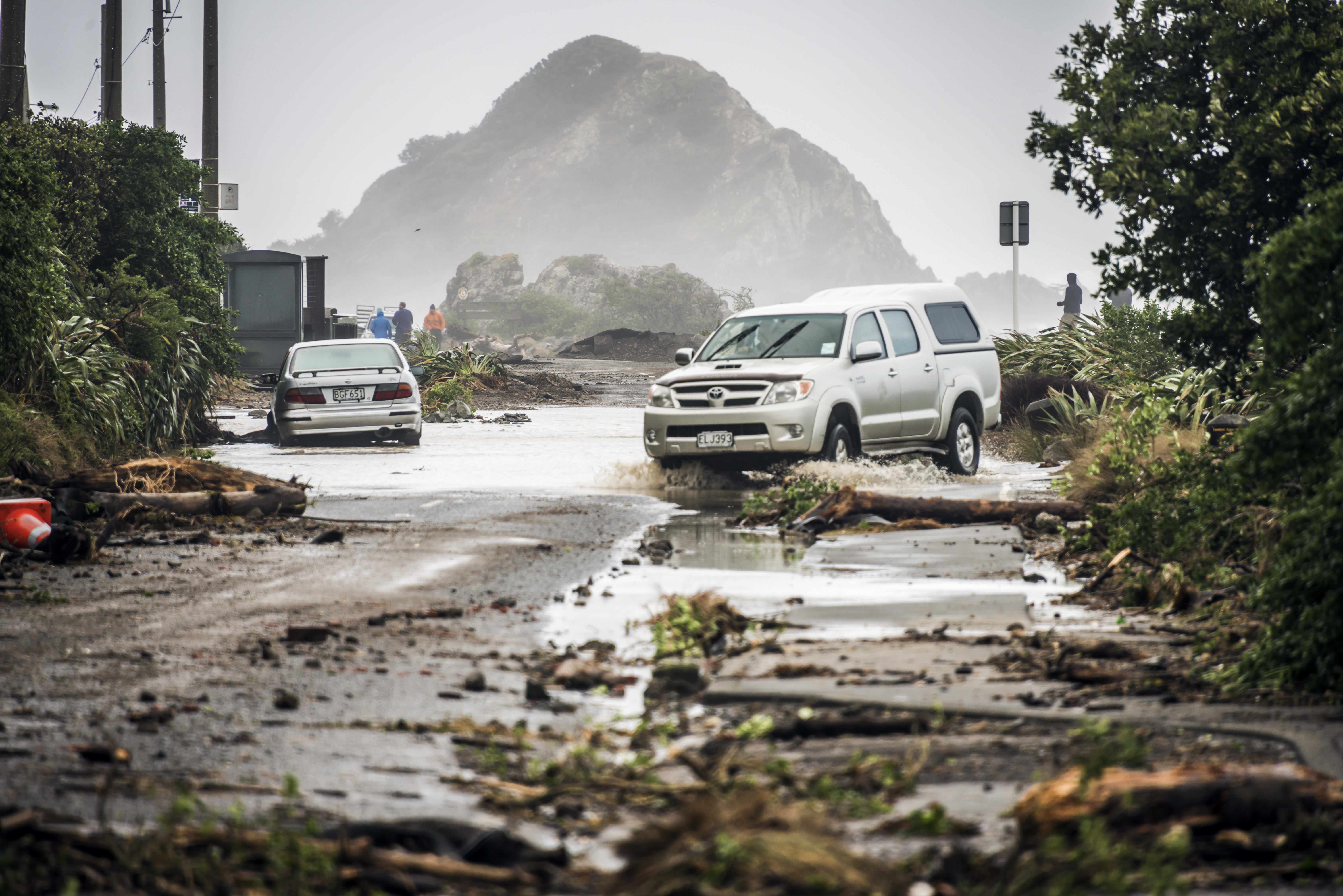 Storm damage Wellington June 2013